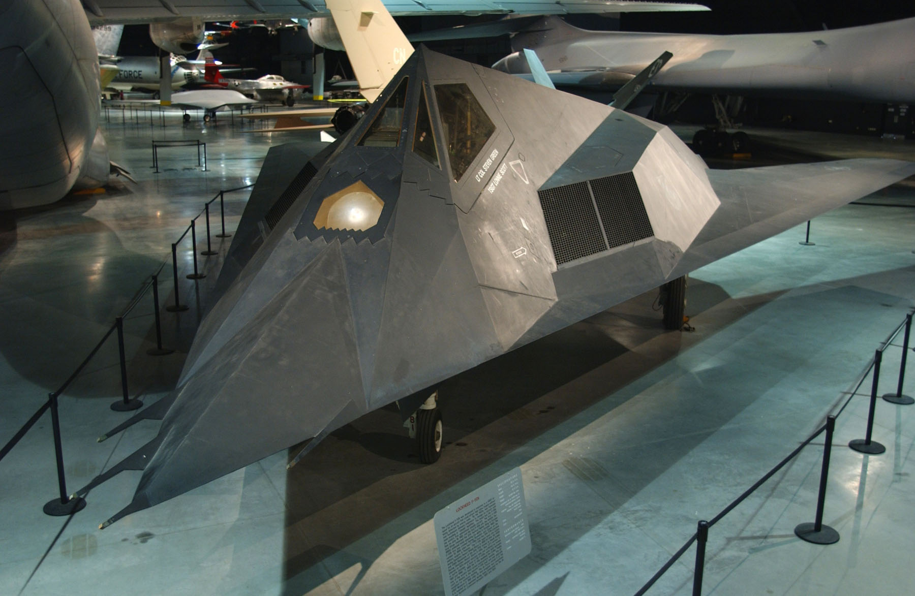 F-117A at the USAF museum